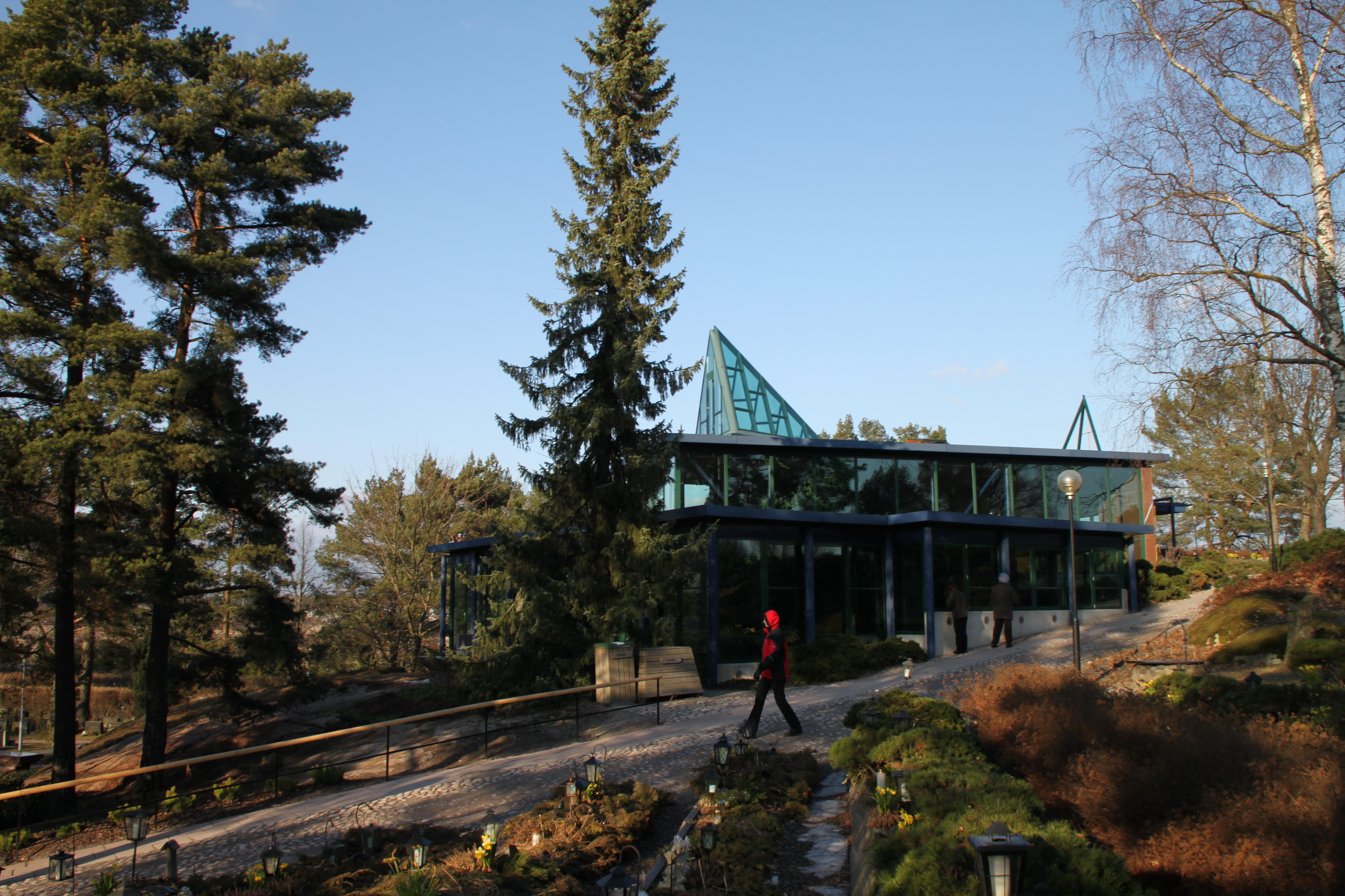 Chapel of Brightness in Raisio, Finland